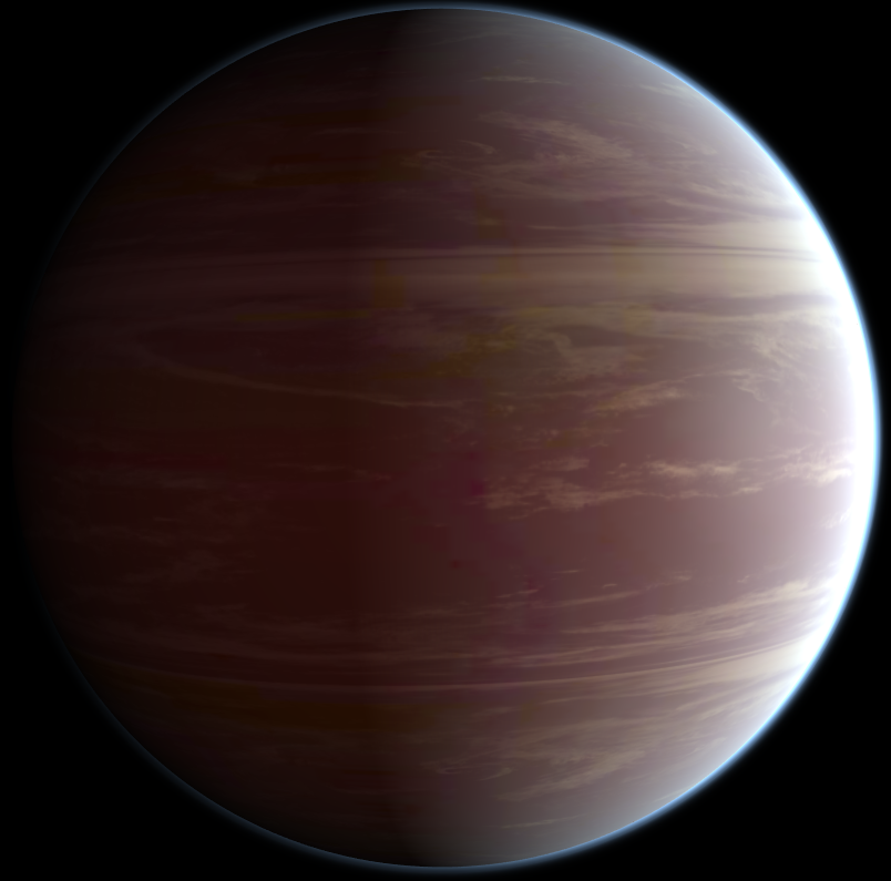 Artistic rendering of COROT-10b exoplanet based on the screenshot from free software PlanetMaker.